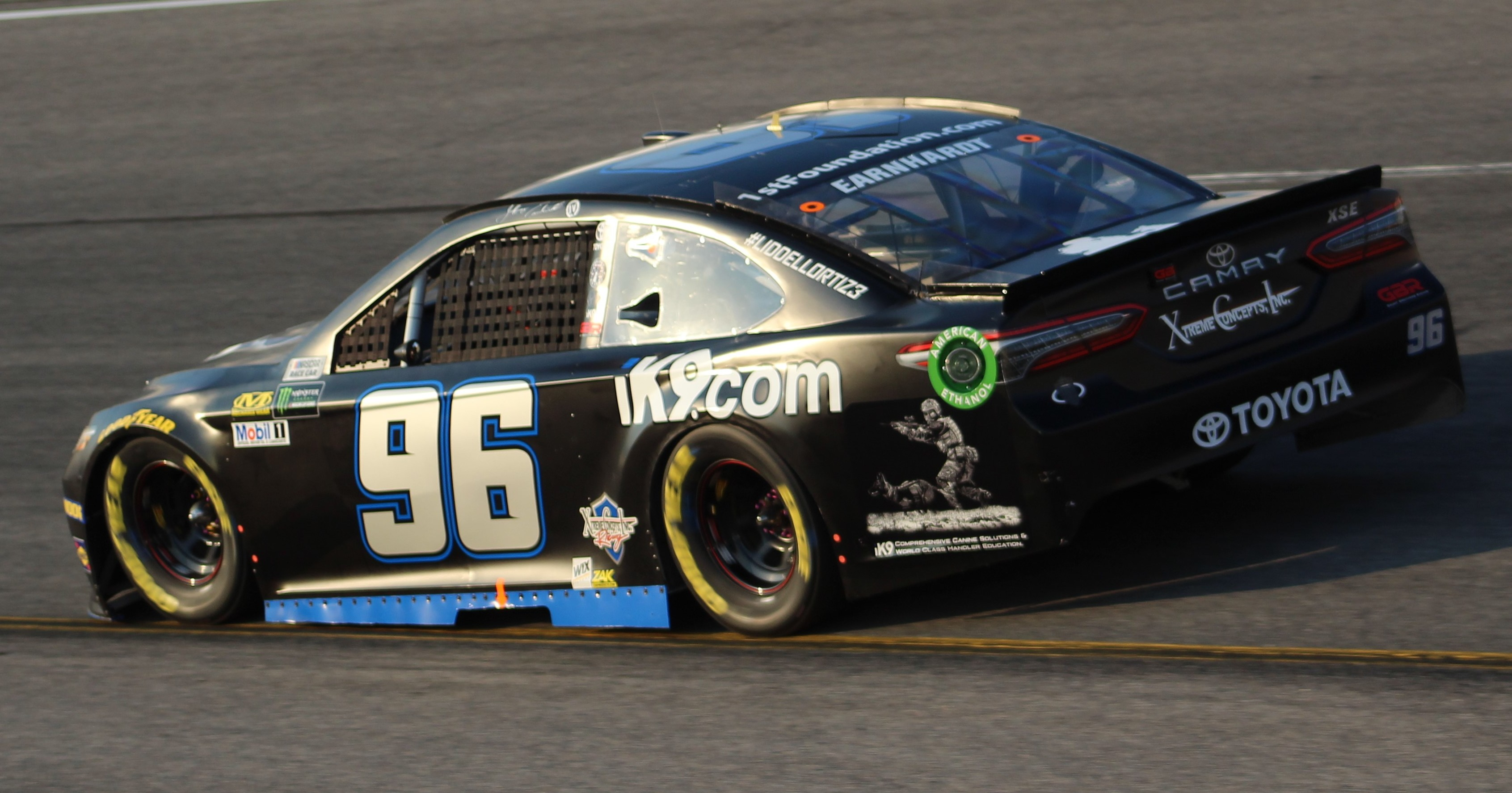 Jeffrey Earnhardt's No. 96 iK9 Toyota at Richmond Raceway in 2018